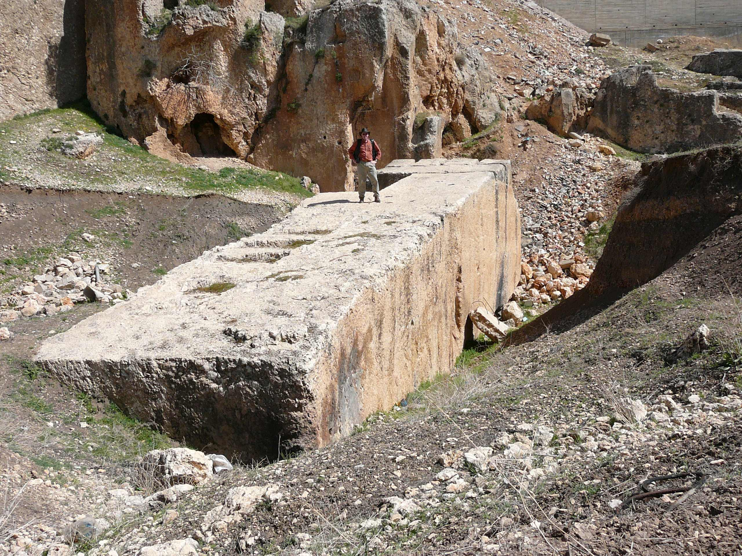 Ralph Ellis on the largest stone at Baalbek, in the second quarry.